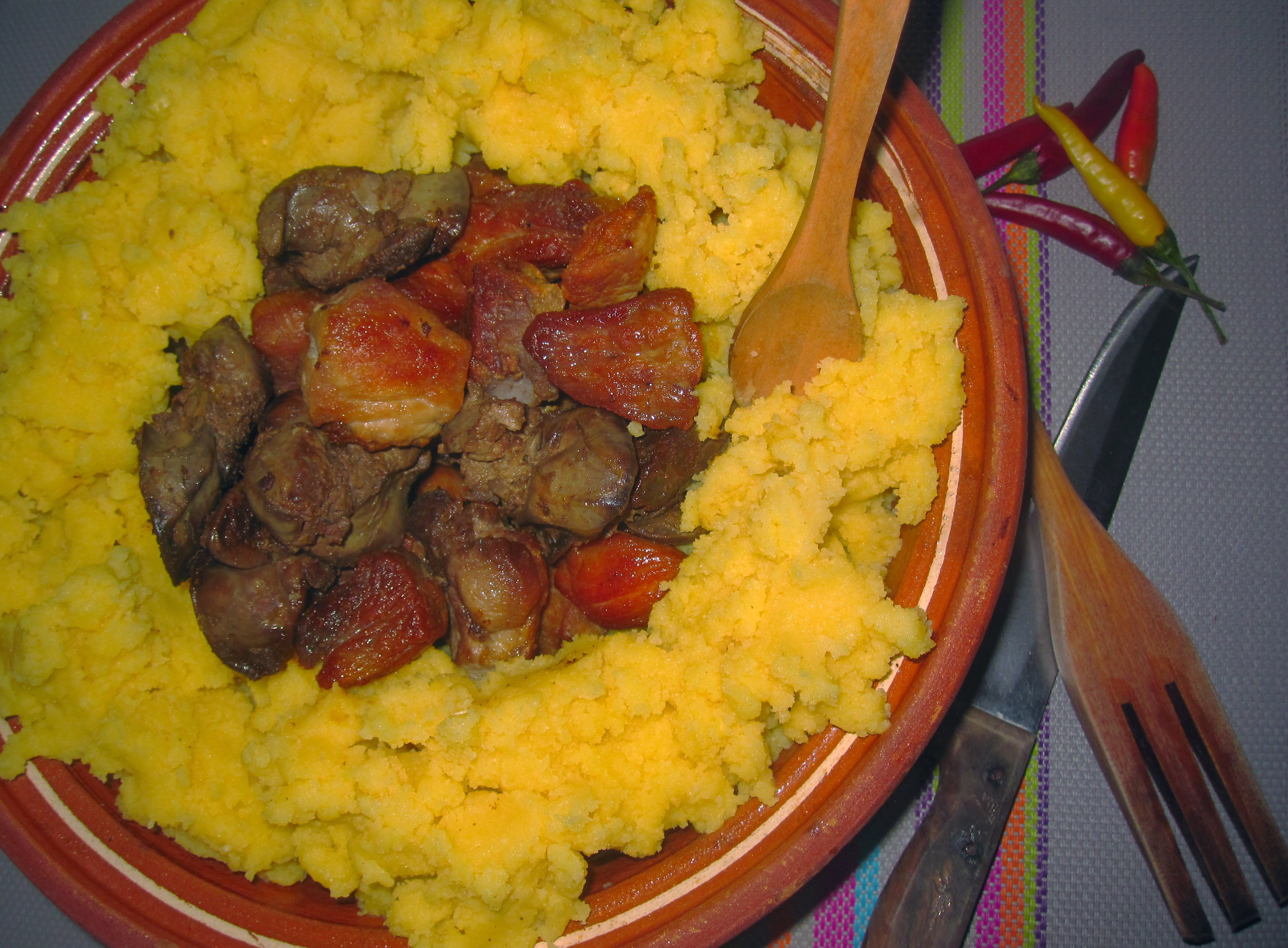 Traditional macedonian food made from corn flour served with meat (pork and chicken).